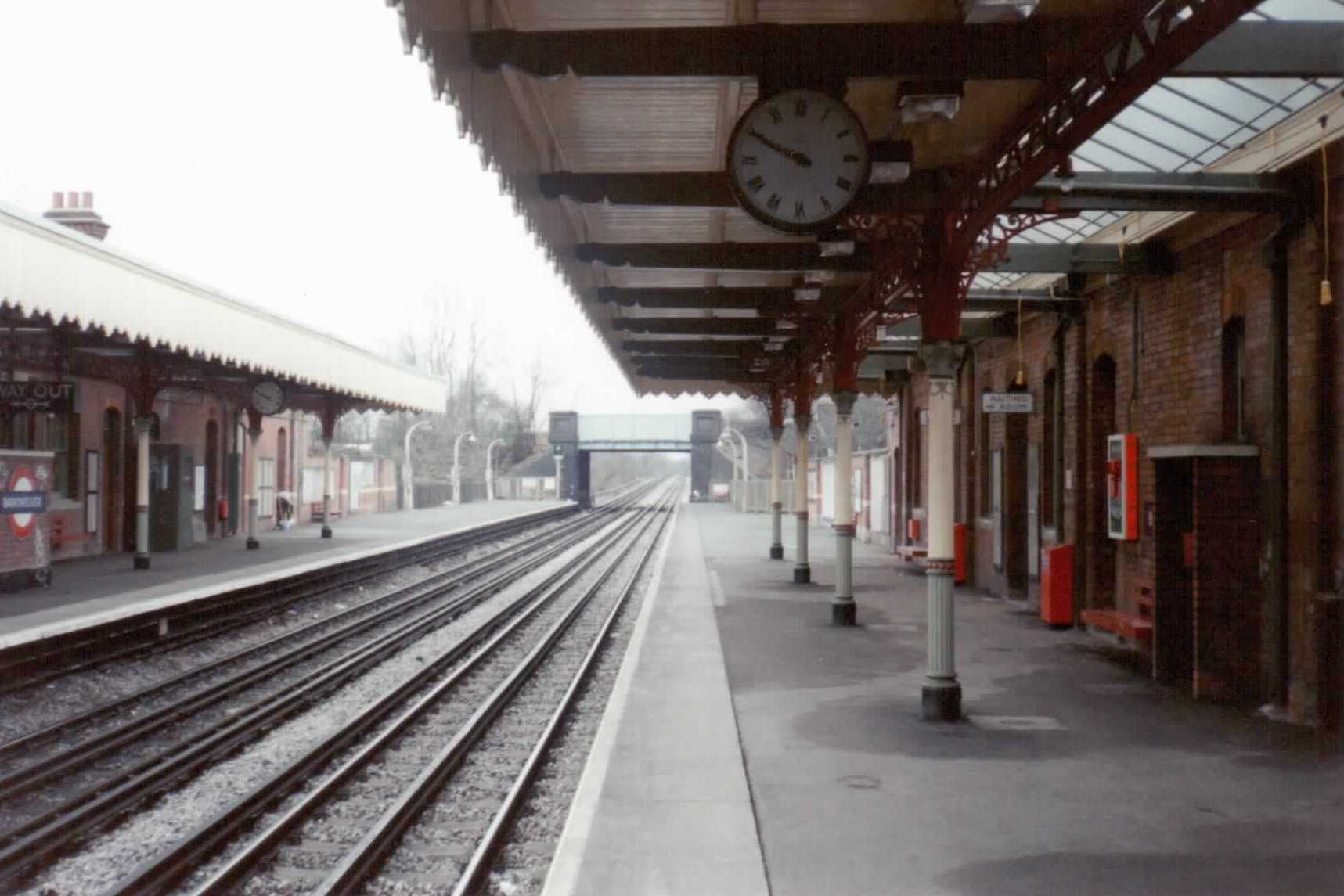 Barkingside Station, on the outer edge of London's underground network.